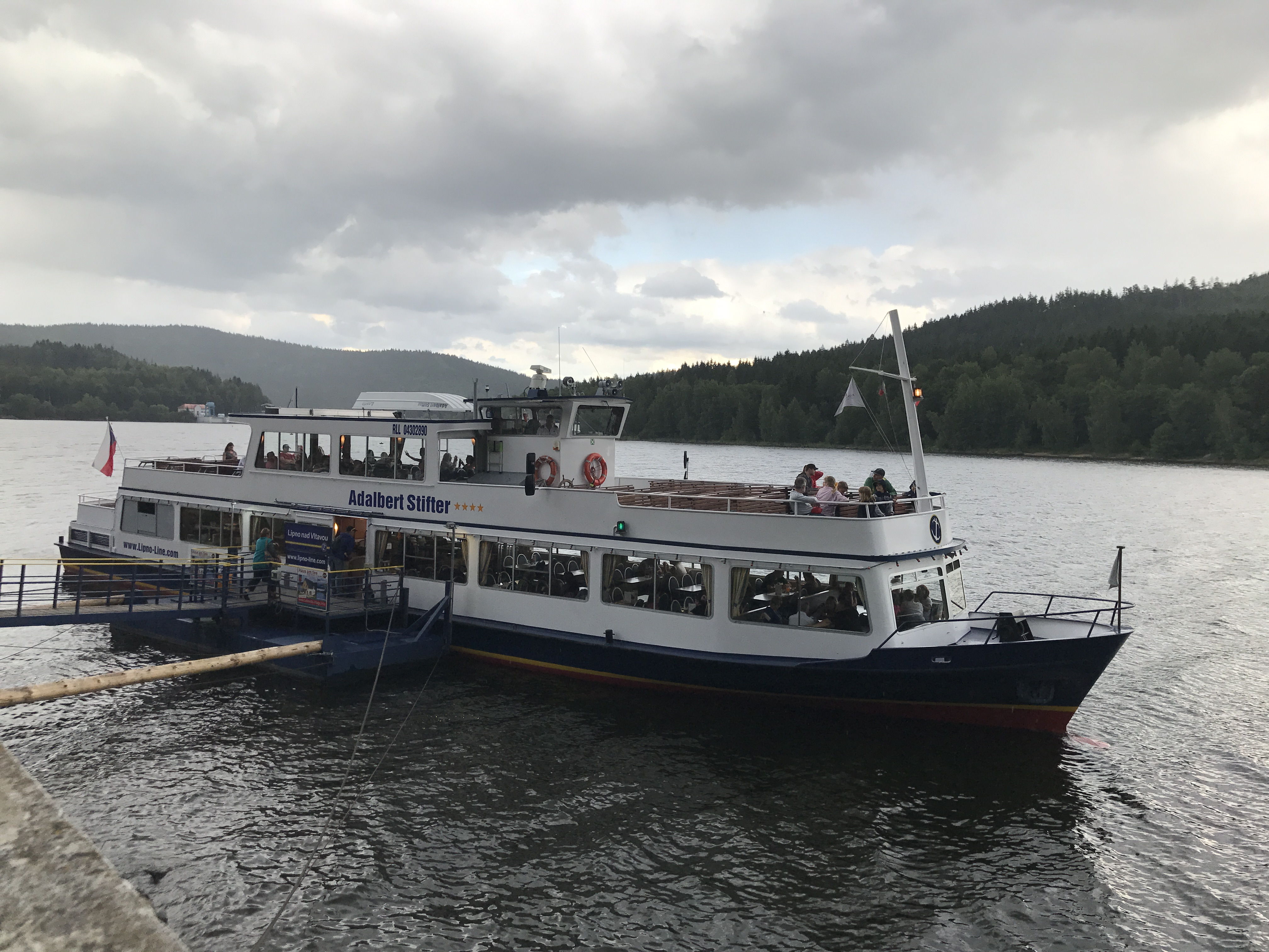 Lipno Reservoir turistic boat Adalbert Stifter, near the dam